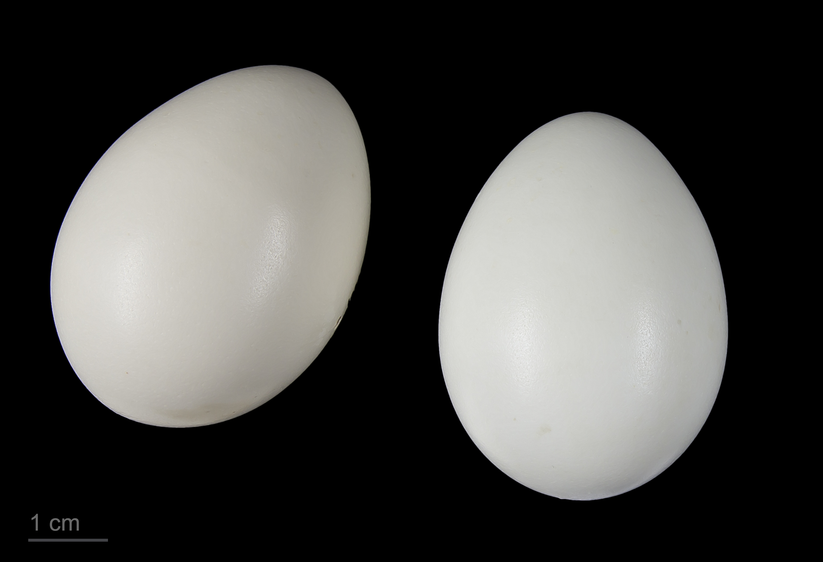 Egg of Reeves's pheasant Collection of Jacques Perrin de Brichambaut.